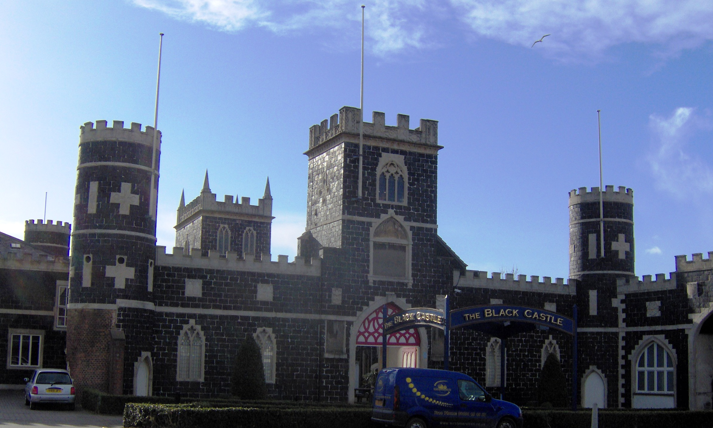 Black Castle Public House, Brislington, Bristol. Taken by Rod Ward 19th March 2007